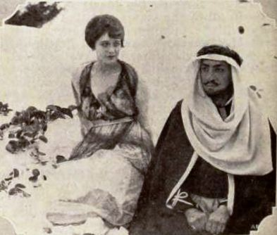 Still from the American drama film Barbary Sheep (1917) with Elsie Ferguson and Pedro de Cordoba, on page 20 of the September 8, 1917 Exhibitors Herald.